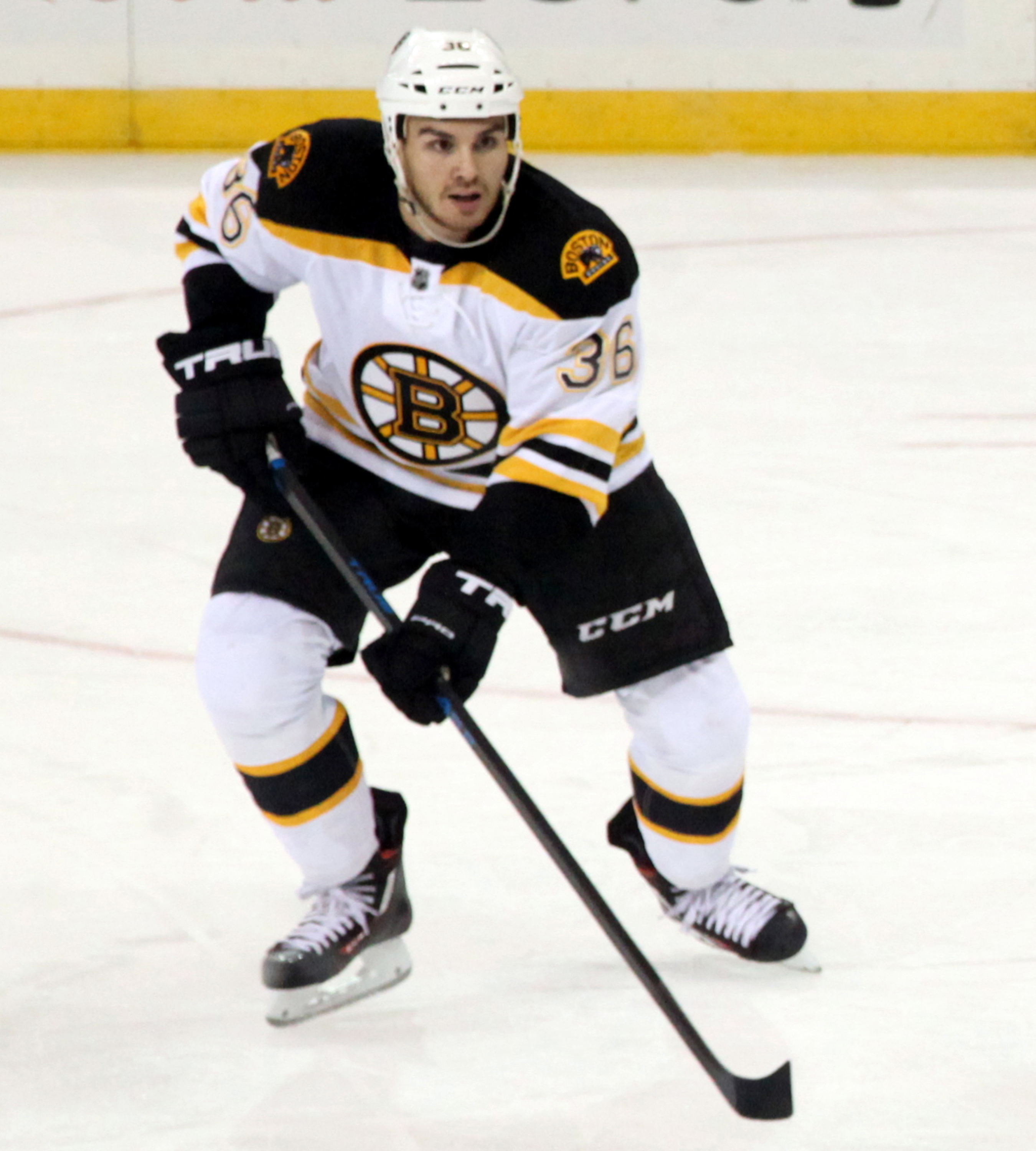 Rinaldo in September 2015.